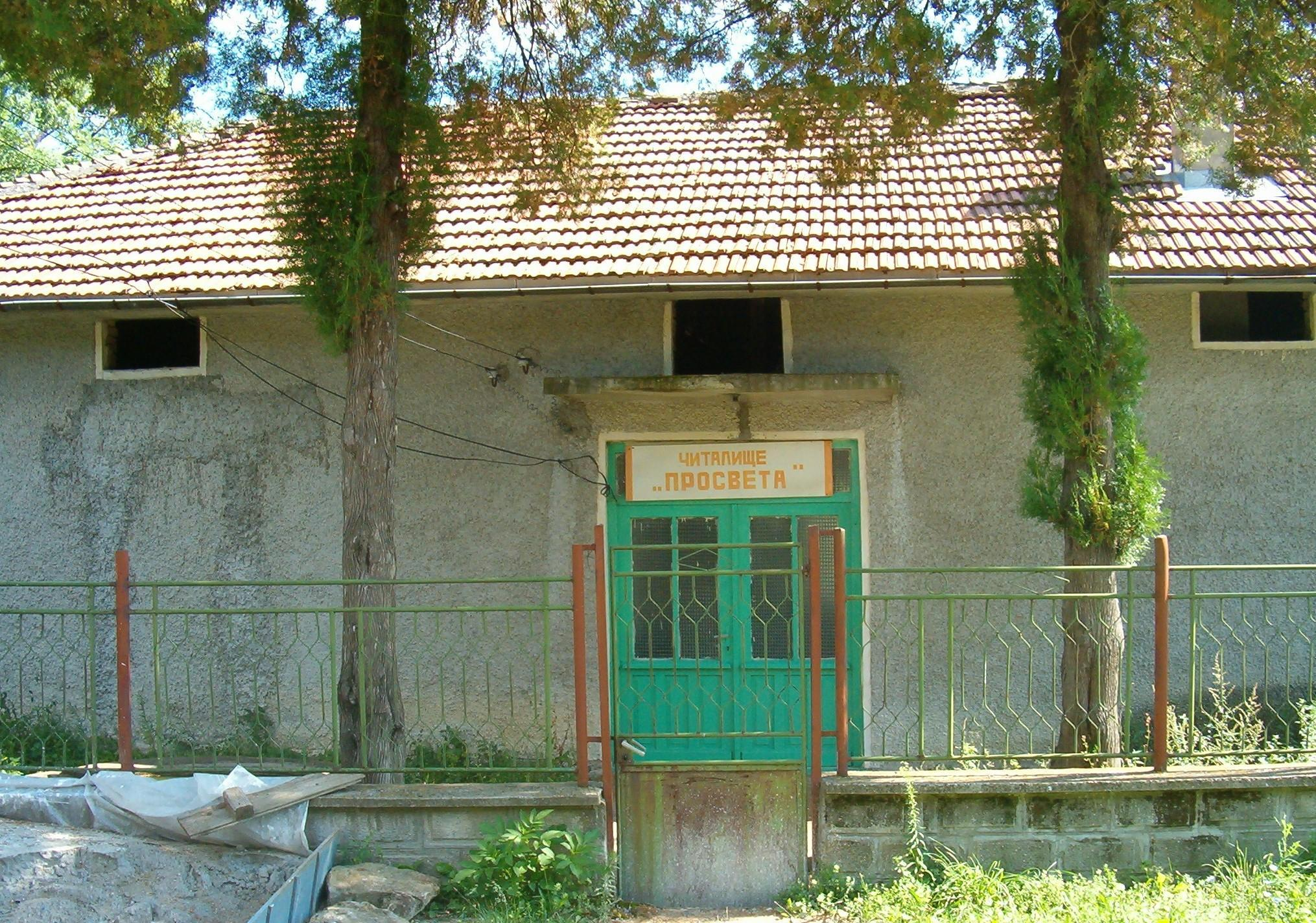 The public library in village Trastika, Targovishte District, Bulgaria